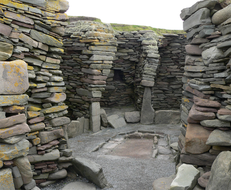 Jarlshof, Shetland, Scotland - wheelhouse (iron age)